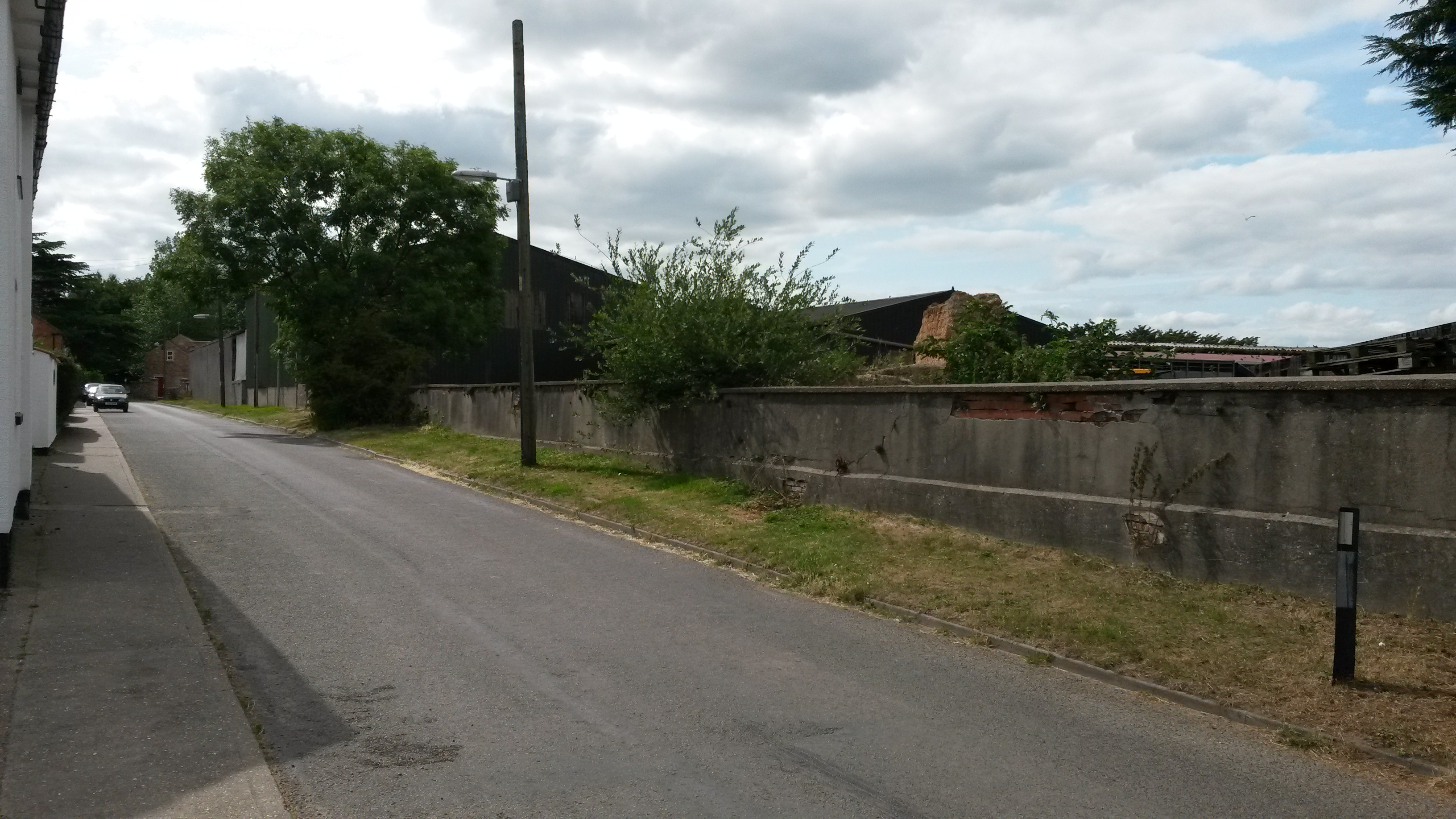 Manor Farm stands on the site of the old Manor House, Henry Stone's home.